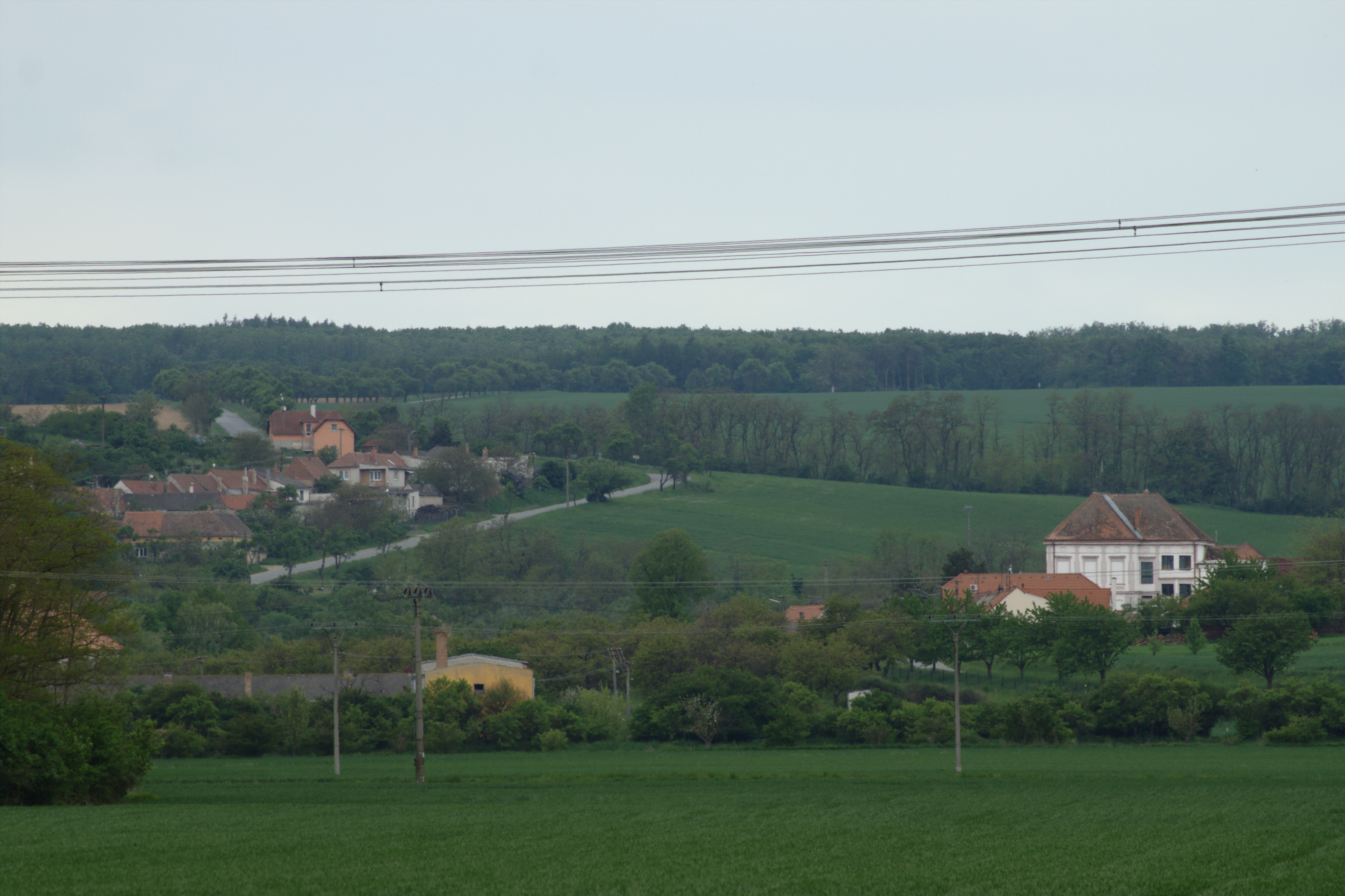 View of the village of Tvořihráz from a way between Žerotice and Kyjovice, South Moravian Region, CZ